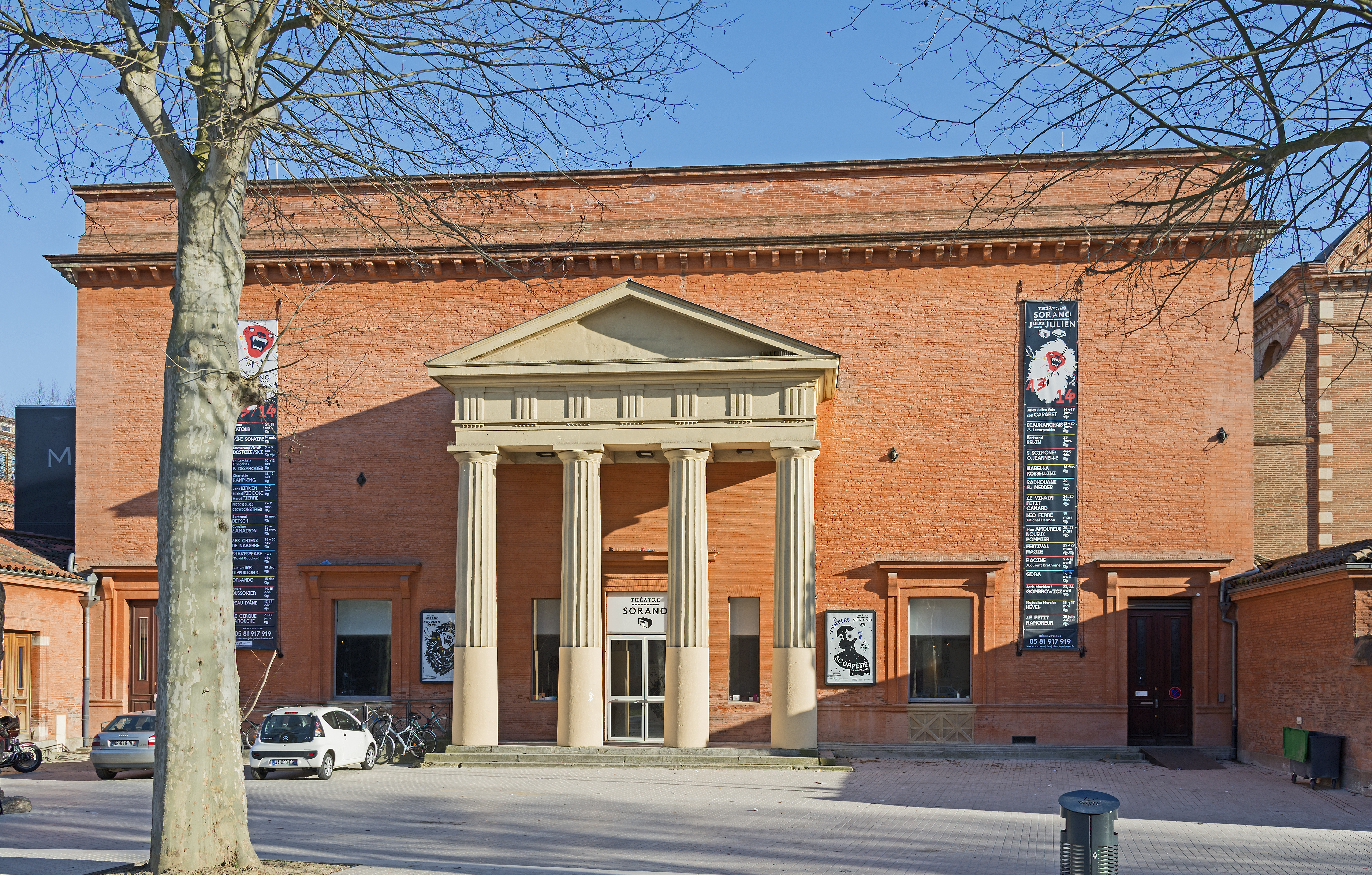 Former School of Medicine of Toulouse- Facade by Urbain Vitry.